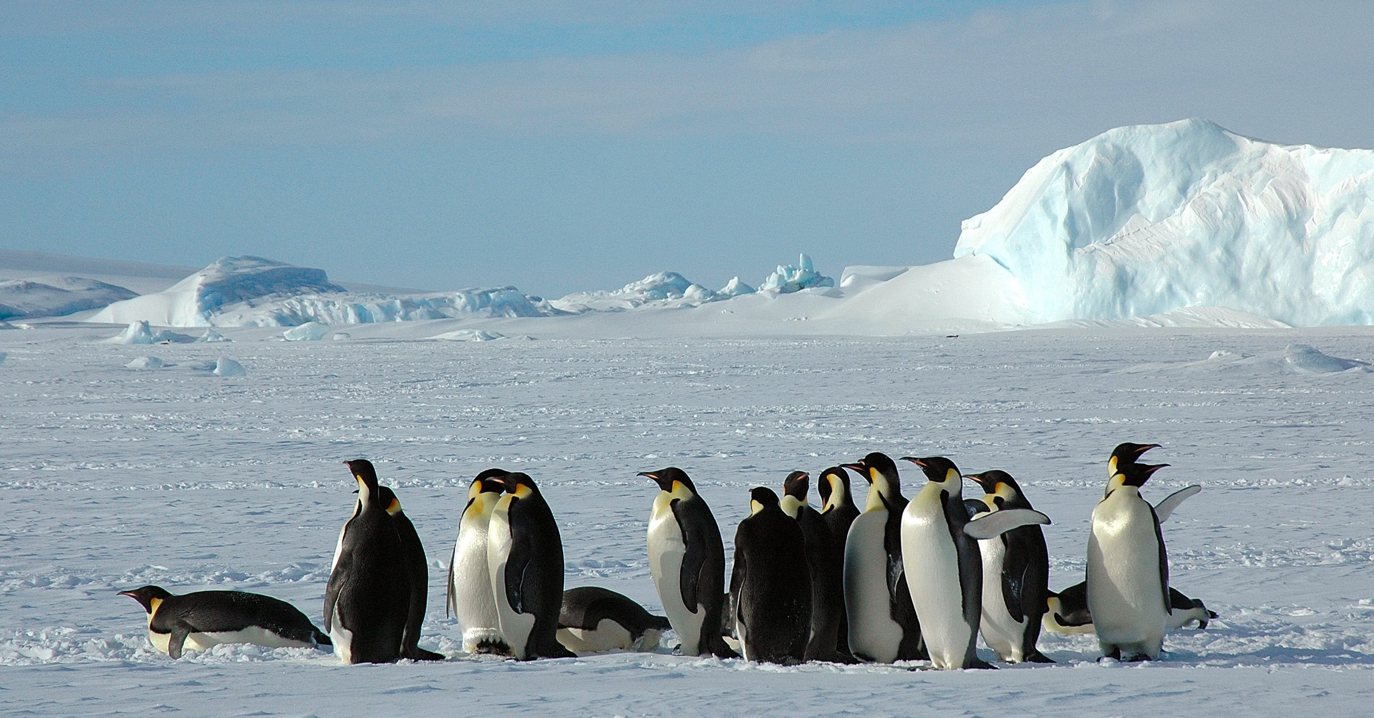 Emperor penguin on Snow Hill